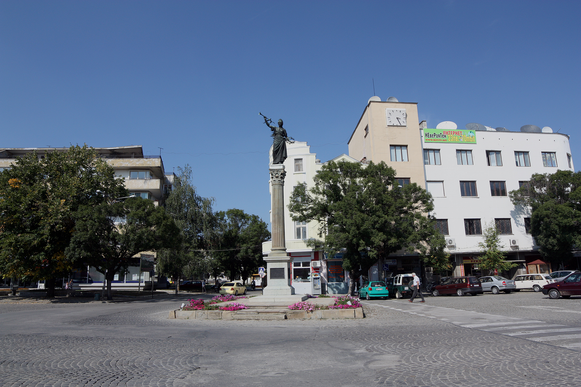 Sevlievo cenral square with the Statue of Liberty